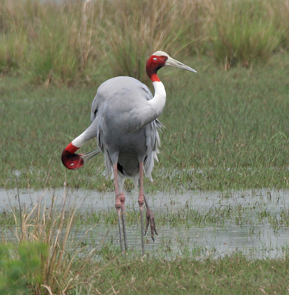 Sarus Crane (Grus antigone) at Sultanpur National Park in Gurgaon District of Haryana, India.